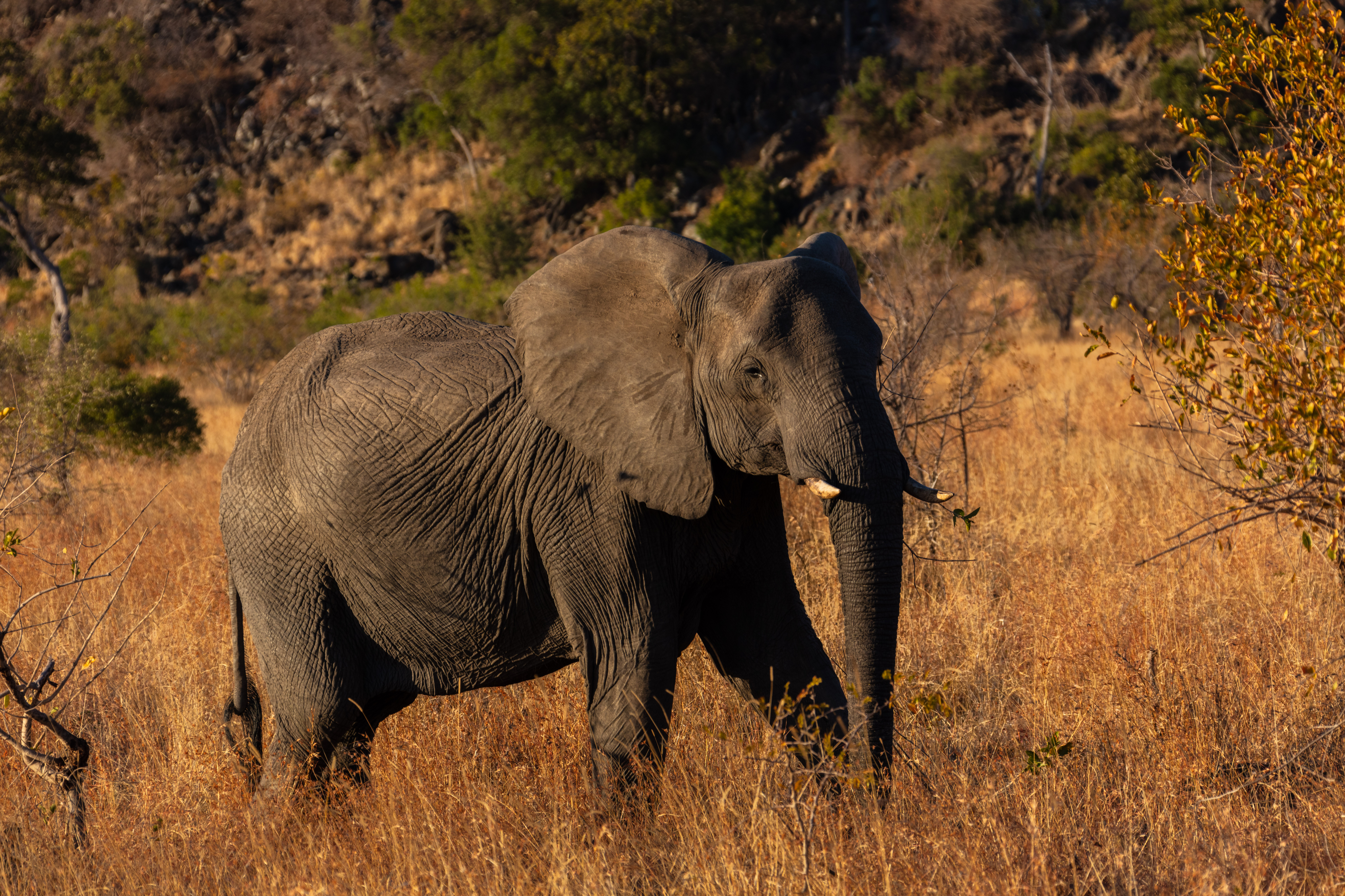 African bush elephant (Loxodonta africana), Kruger National Park, South Africa